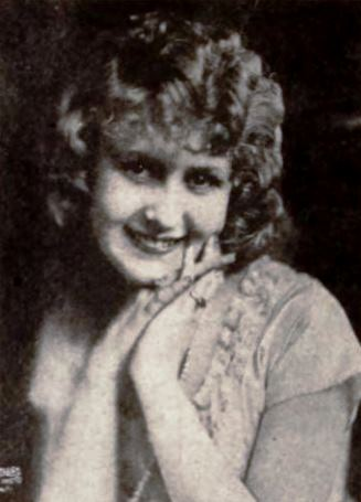 Actress Clara Horton, on page 82 of the January 8, 1921 Exhibitors Herald.